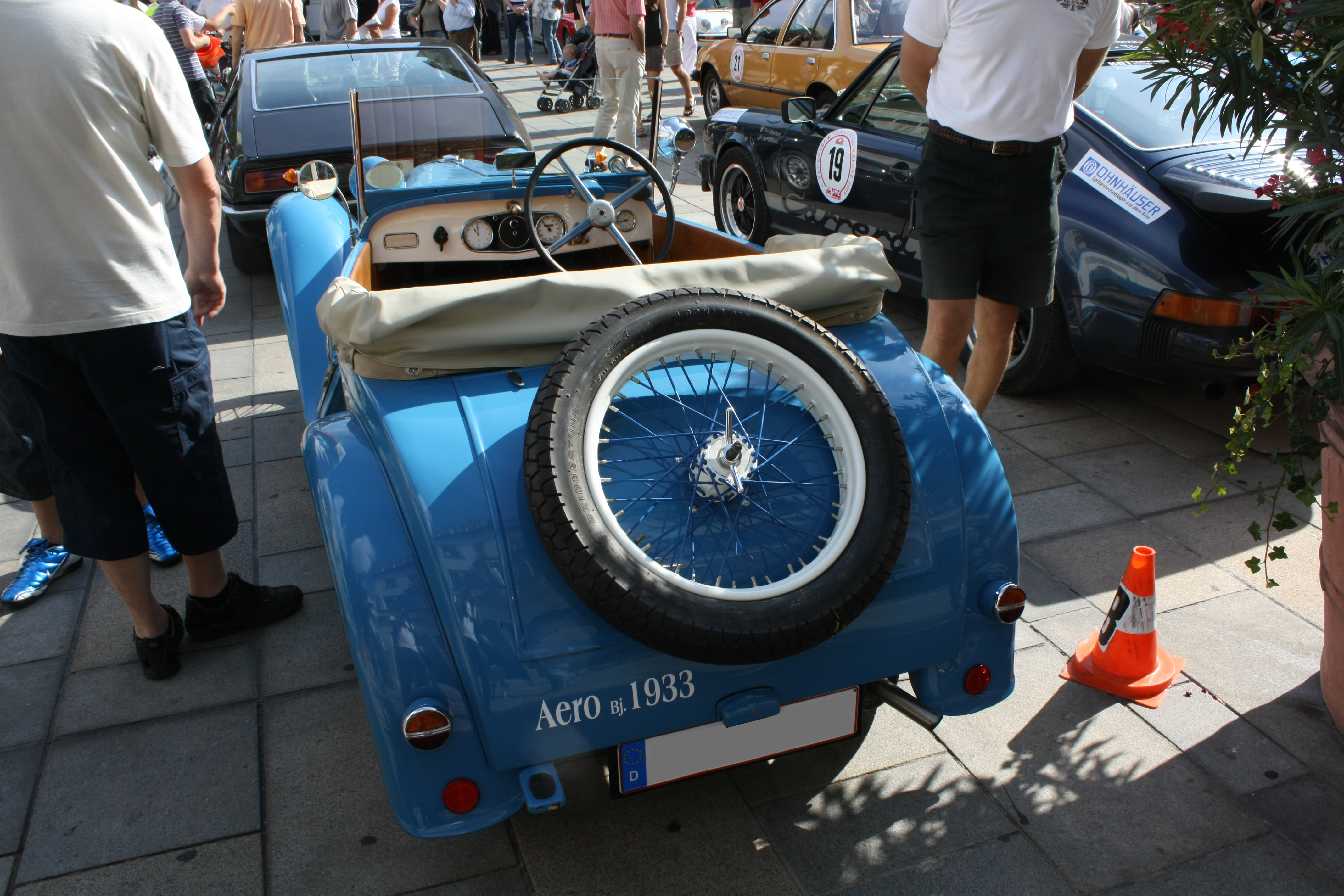 Aero 18 Roadster